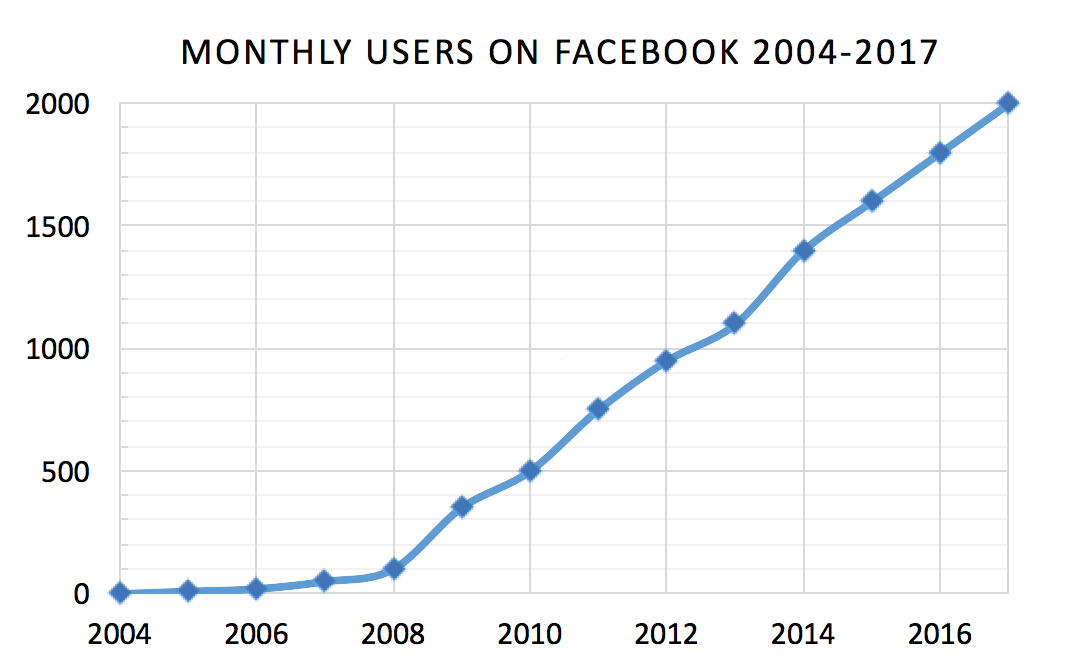 Facebook users in millions. Own Work. Data by Facebook